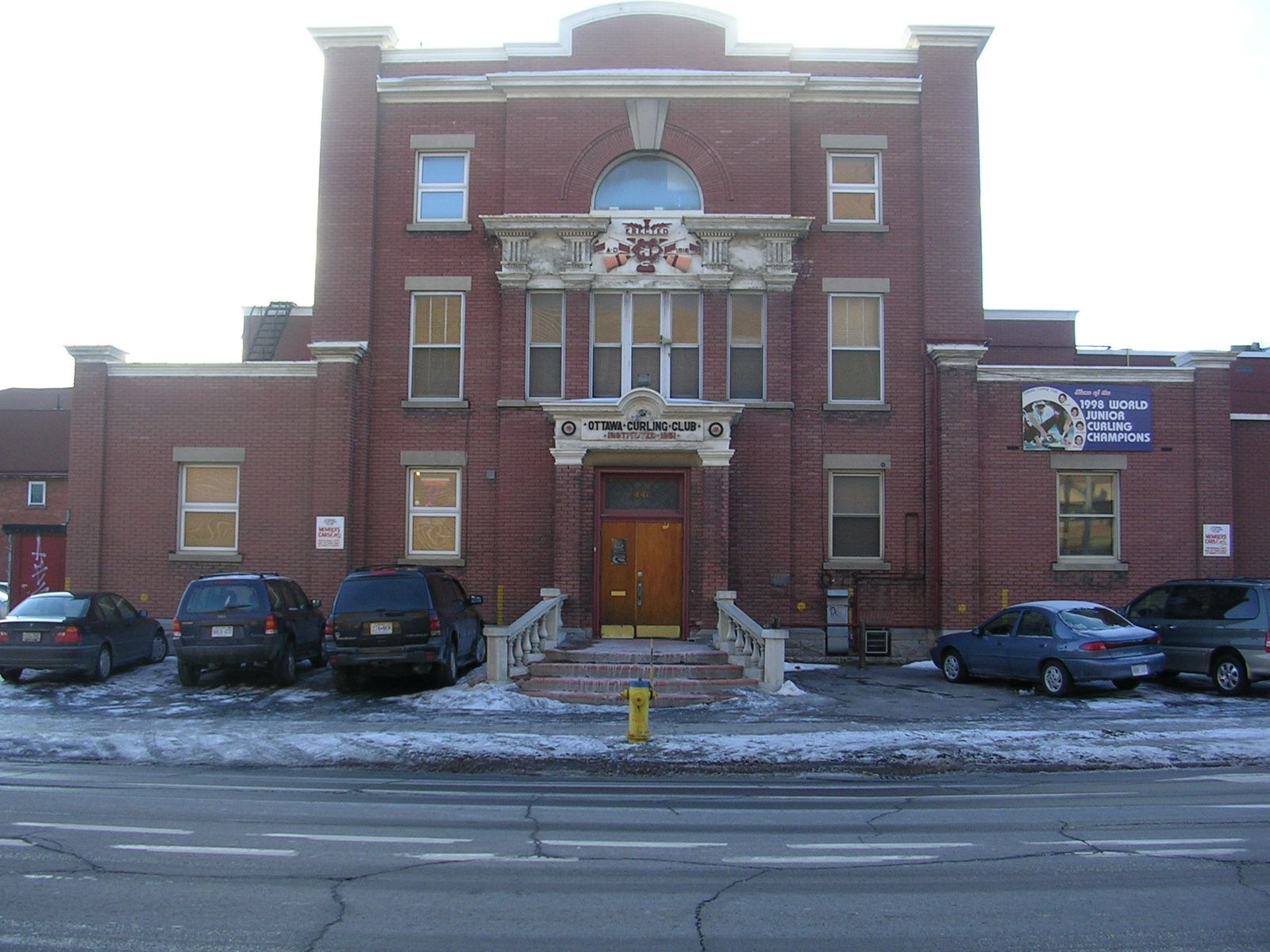 Ottawa Curling Club building at 440 O'Connor Street in Ottawa, Ontario, Canada.